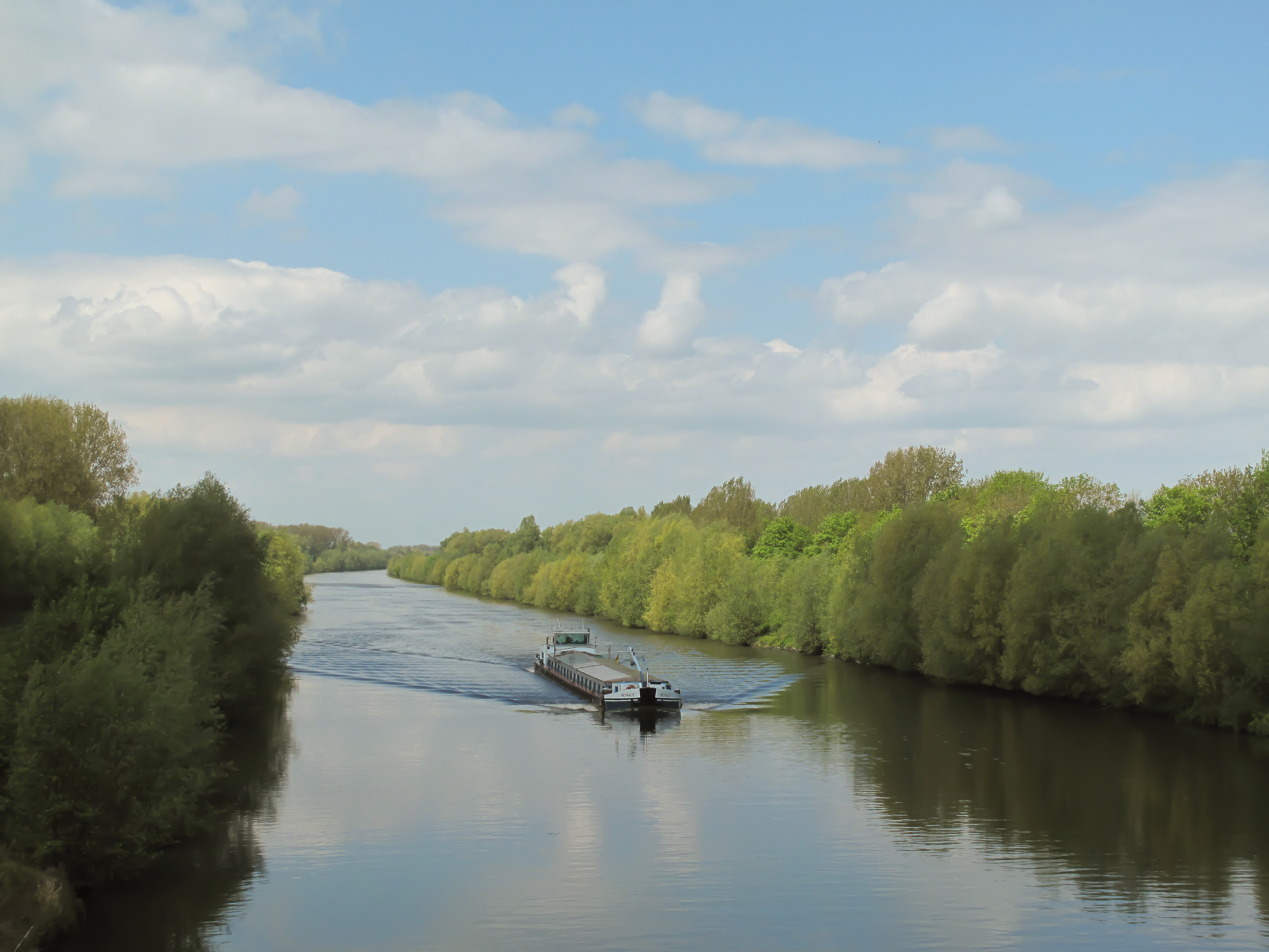 between Bruille Saint Amand and Hergnies, river: Scheldt